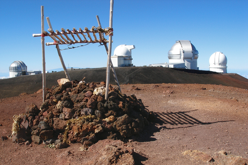 Hawaii, USA, Mauna Kea observatories—(left to right) United Kingdom Infrared Telescope, University of Hawai'i 88-inch telescope, Gemini North Observatory, and Canada–France–Hawaii Telescope—from summit